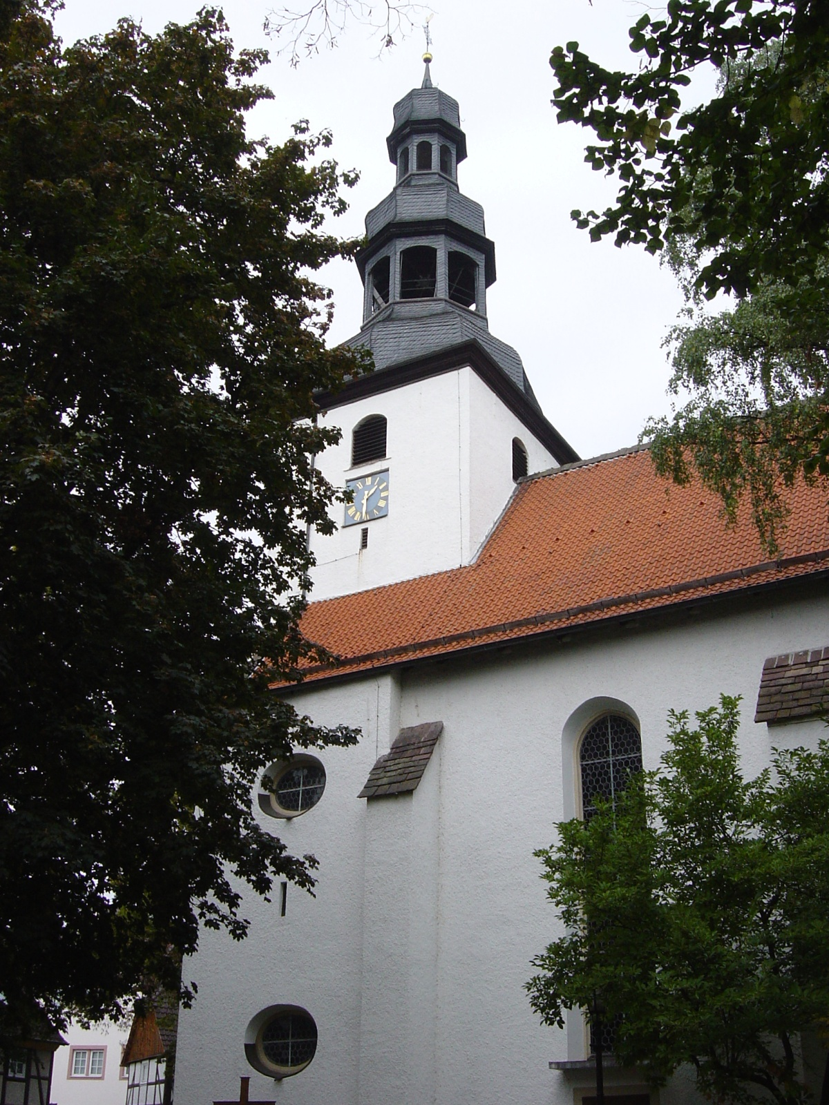 Catholic St. Johannes Baptist Kirche in Beverungen (Germany)